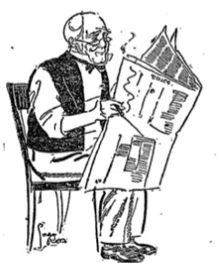 Depiction of Mr. Dooley